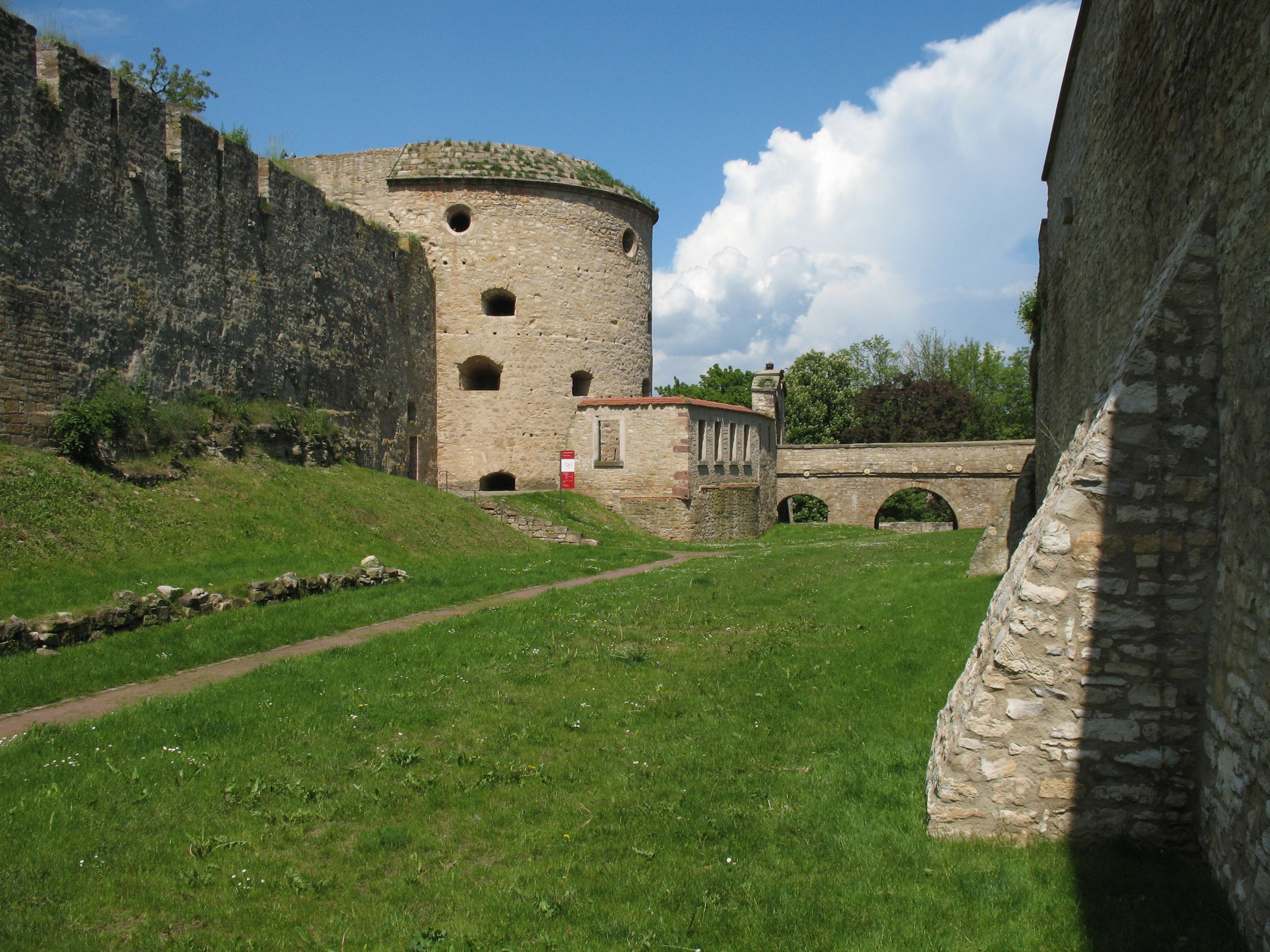 Moat and bastion in Querfurt in Saxony-Anhalt, Germany